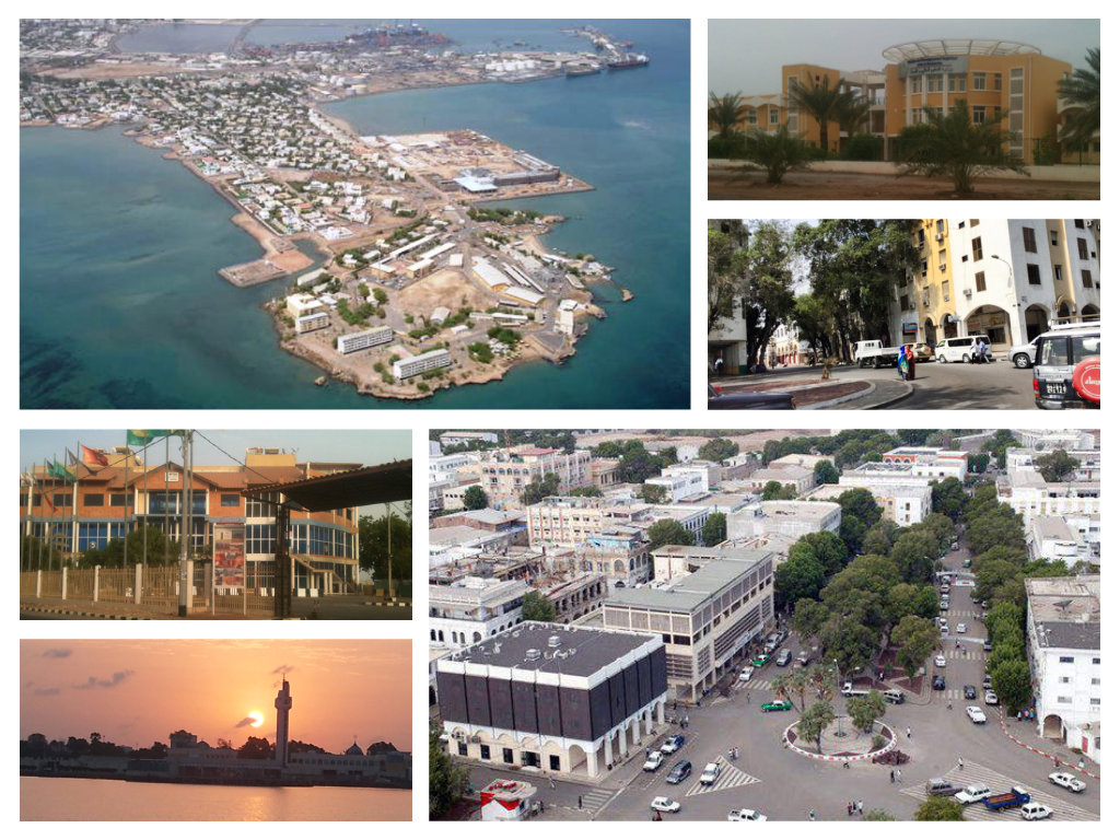 Montage of places in Djibouti City, Djibouti.